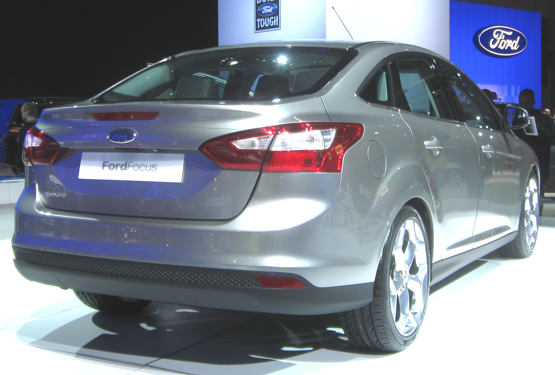 2012 Ford Focus photographed at the 2010 Washington Auto Show.